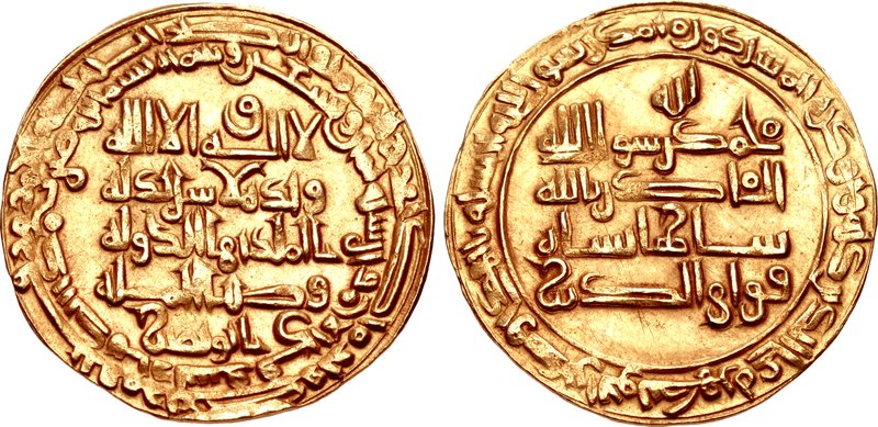 ISLAMIC, Persia (Pre-Seljuq). Buwayhids (Buyids). Baha' al-Dawla Abu Nasr Firuz Kharshah. AH 379-403 / AD 989-1012. AV Dinar (25mm, 4.43 g, 7h). Suq al-Ahwaz mint. Dated AH 398 (AD 1007/8). Kalima in four lines across field, monogram above; Quran 30:4-5 in outer margin, mint formula and AH date in inner margin / Continuation of Kalima across field, “li-’illah” above, name of al-Radi below; “Second Symbol” (Quran 9:33) in outer margin. Treadwell Su398G; Album 1573. Good VF.